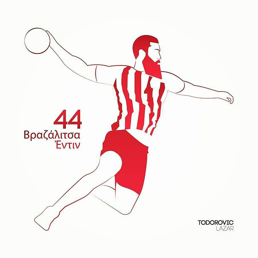 Постер